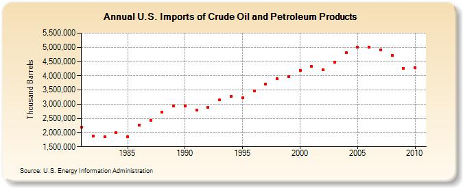 U.S. Imports of Crude Oil and Petroleum Products (Thousand Barrels) 1981 -2010